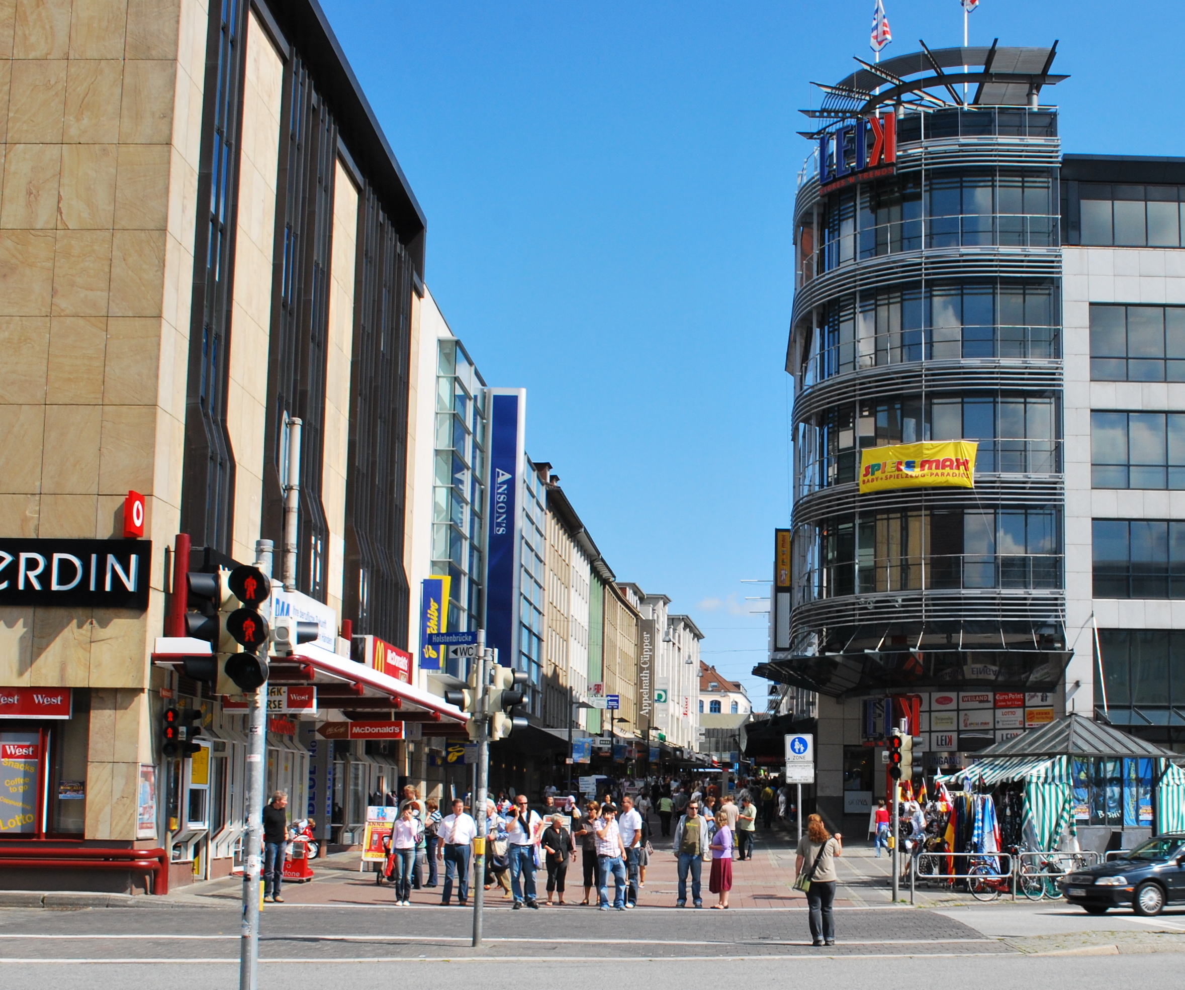 Holsten strasse, Kiel